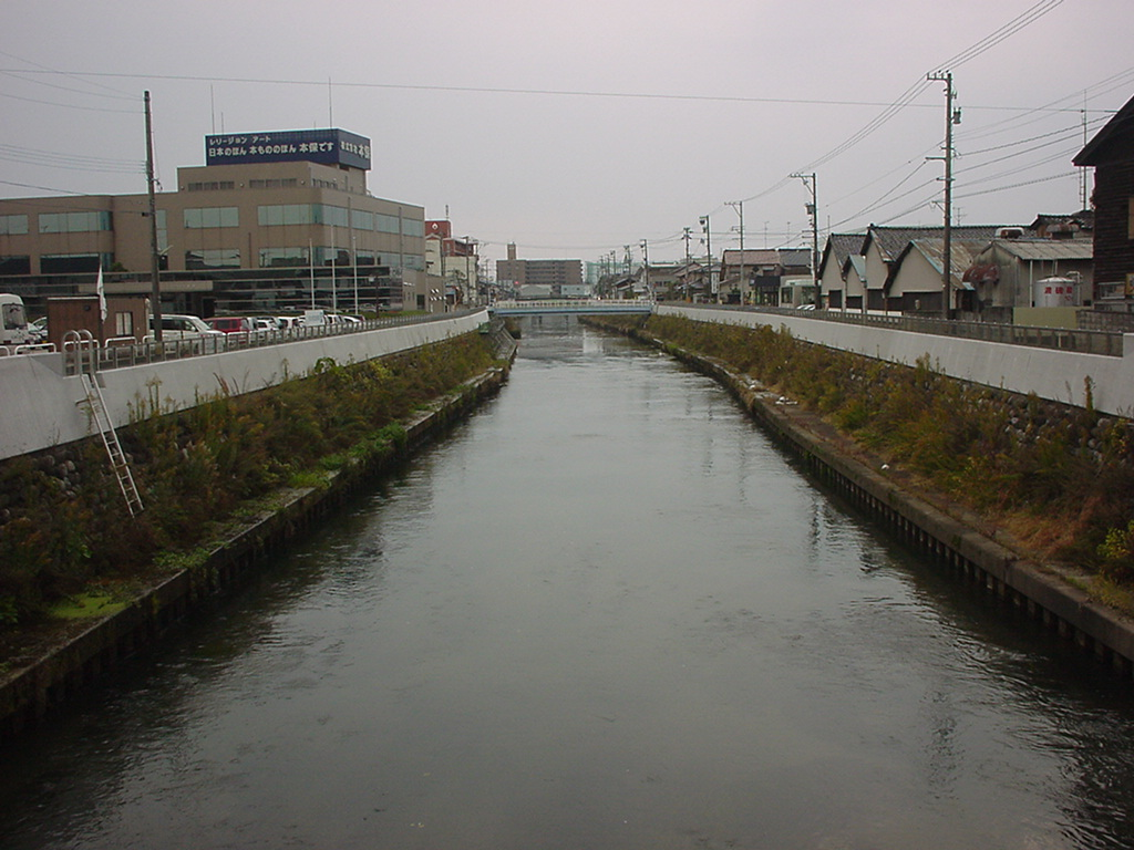 Senbo River in Toyama, Japan.